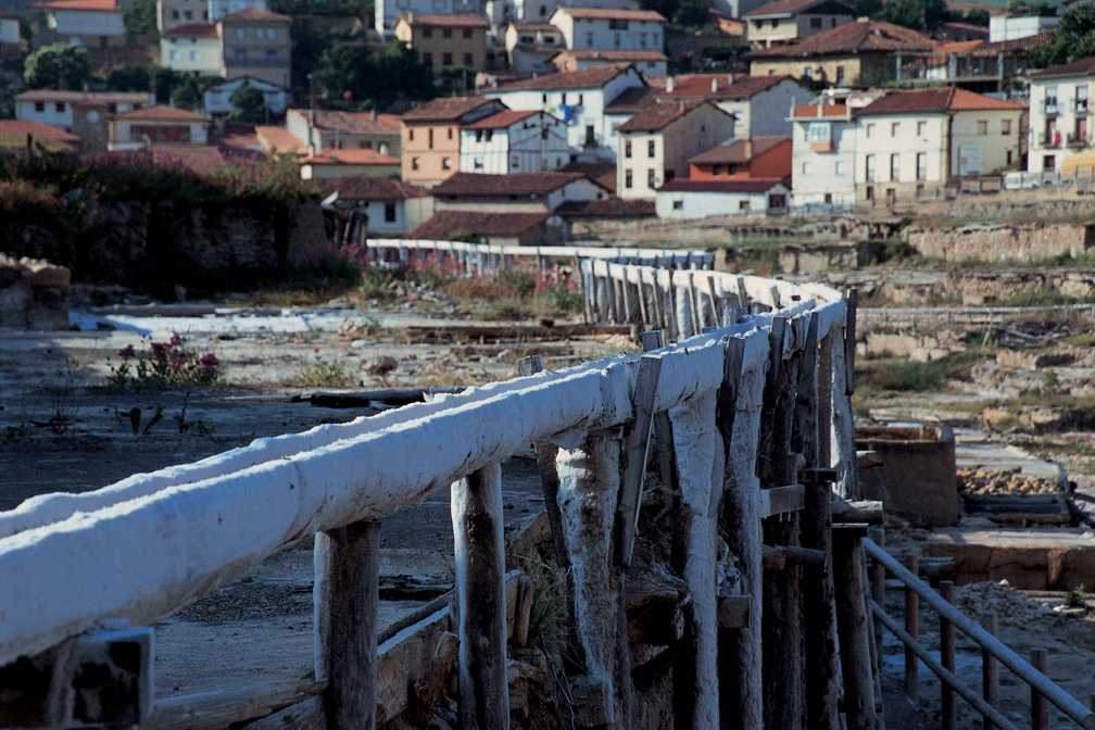 Wooden brine channel. From the spring to the wells, brine is conducted through wooden channels.